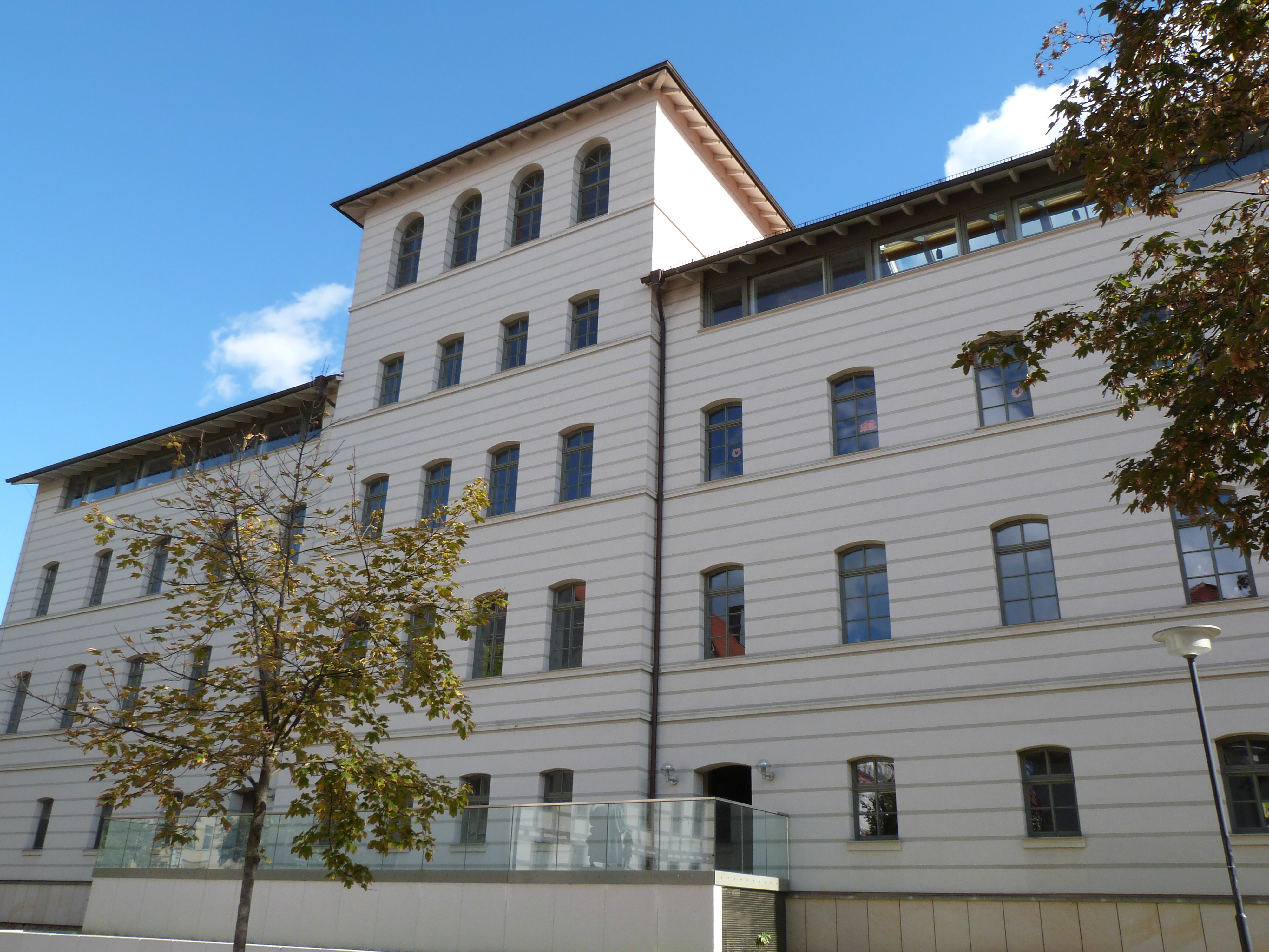 House No. 19, former Königliches Pädagogium of the Francke foundations in Halle (Saale), today elementary school Maria Montessori and "House of the generations (nursing home)